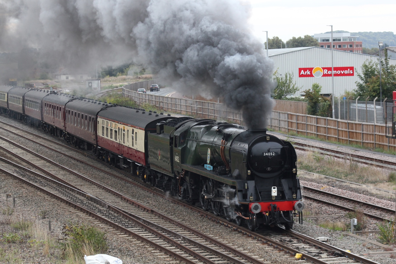 34052 Lord Dowding (in reality, 34046 with a temporary identity) steams out of Taunton with a 'Royal Duchy' excursion to Par.